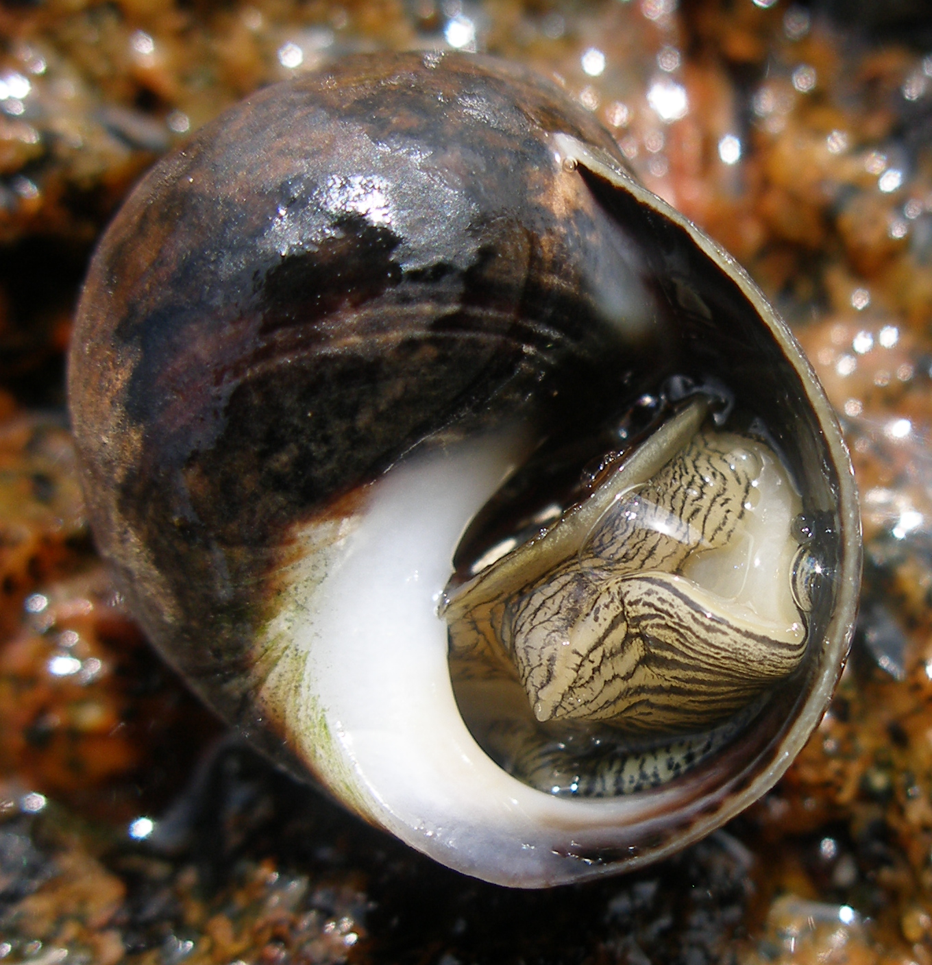 Entrance of a sea snail's house with living sea snail within. Veddö naturreservat, Sweden 2005.